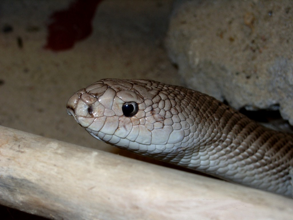 Southern Pine Snake, Florida Pine Snake (Pituophis melanoleucus mugitus)